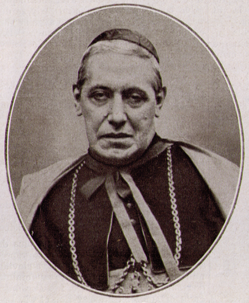 Mariano Rampolla del Tindaro